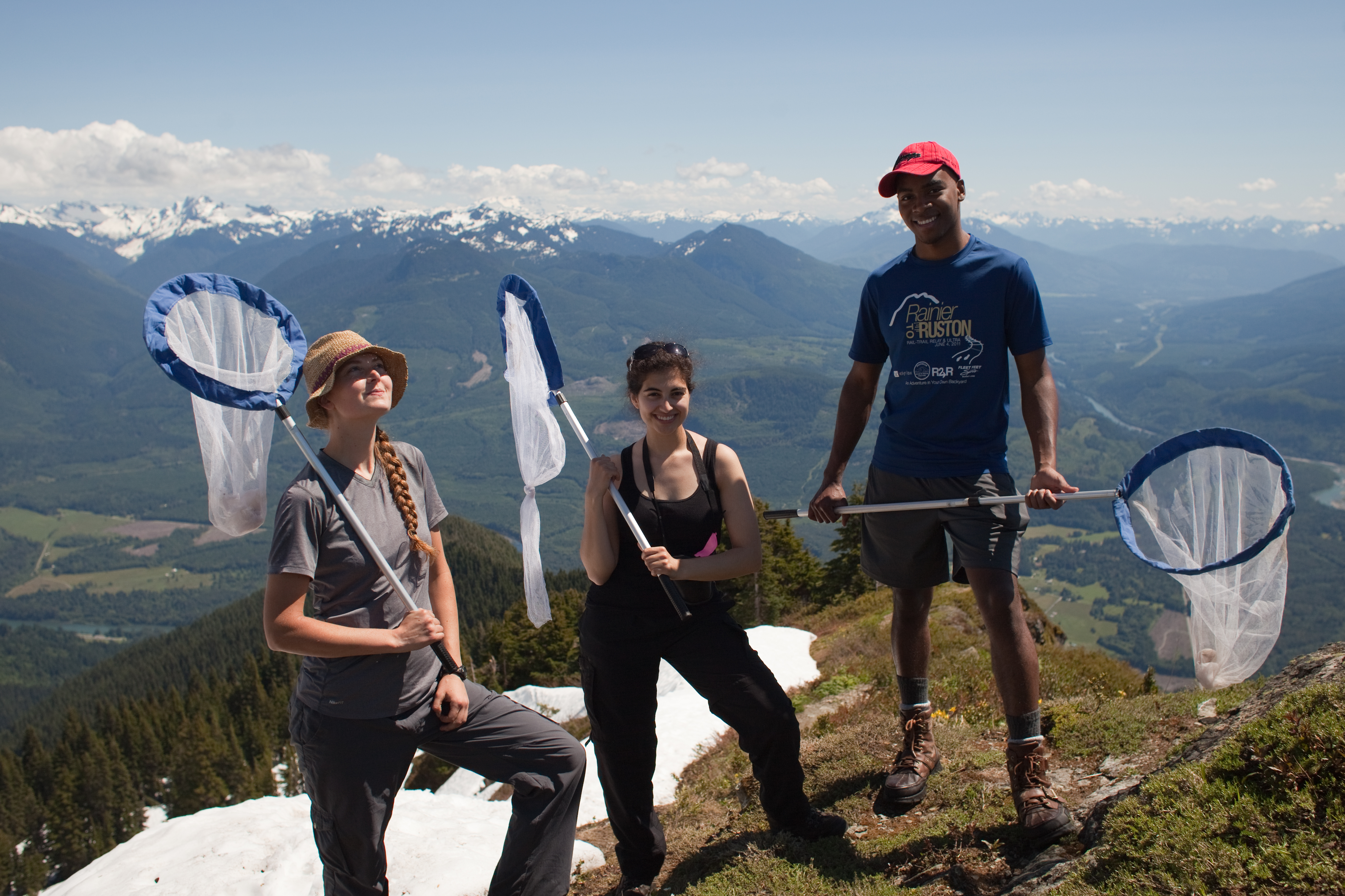 Part of the citizen science team poses on Sauk Mountain. NPS/Karlie Roland